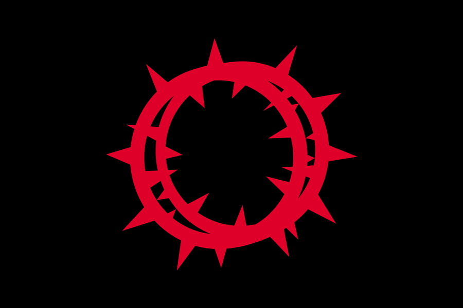 The Crown of Thorns Flag, the Flag of National Levelers Association. Also used as the former flag of Buraku Liberation League.